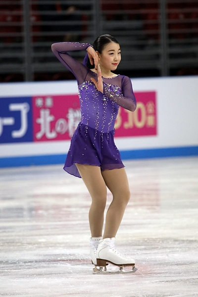 Photos – Junior World Championships 2018 – Ladies (Rika KIHIRA JPN – 8th Place)